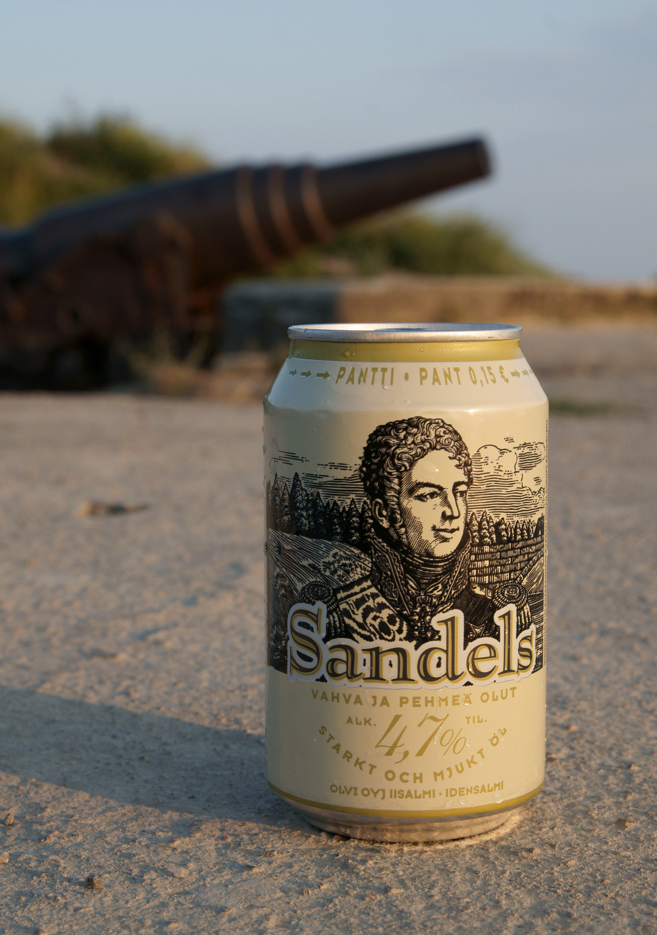 A can of Sandels in Kustaanmiekka, Suomenlinna.